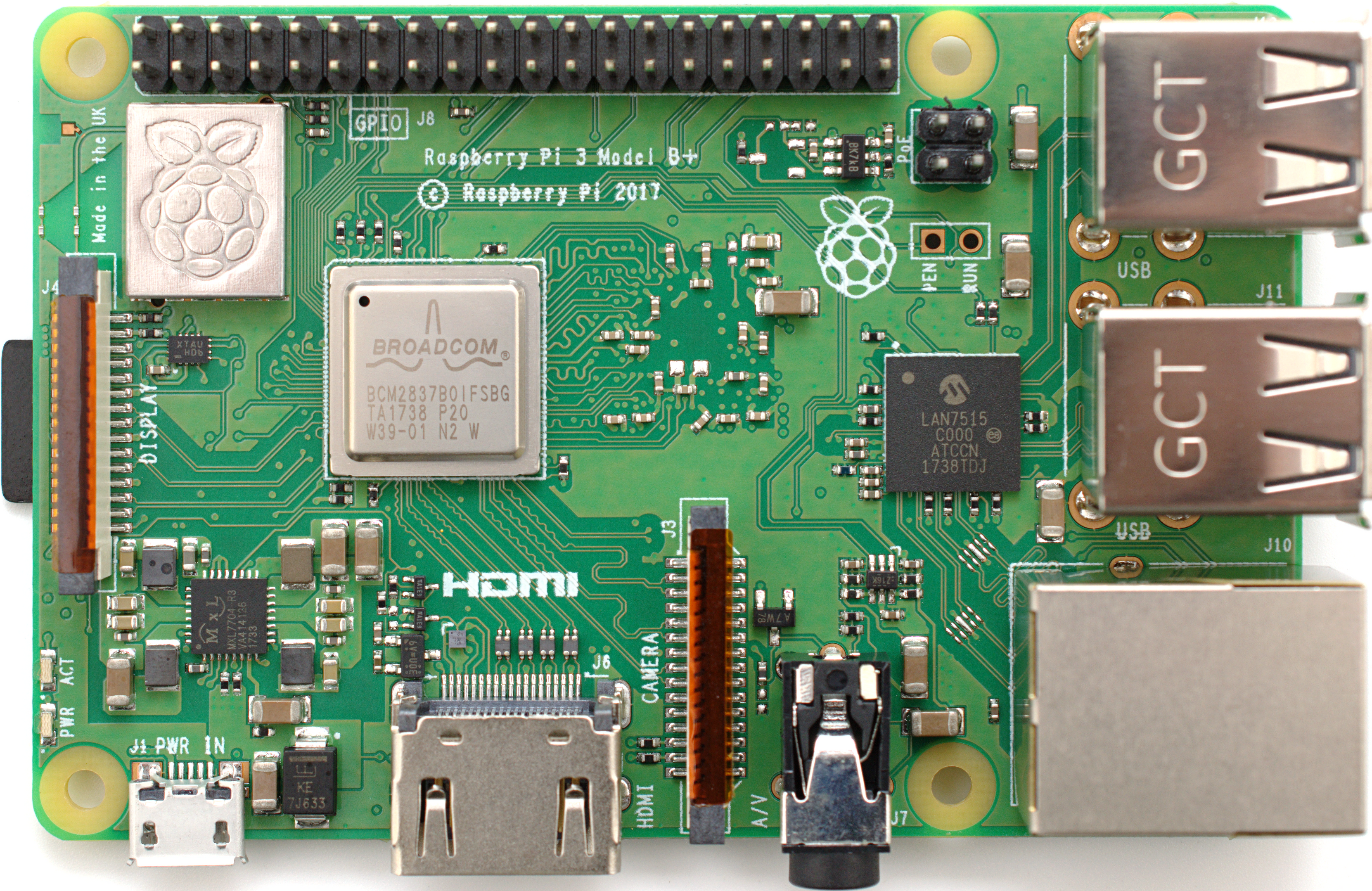 Raspberry Pi 3 B+ single-board computer, supplied as a press sample by the Raspberry Pi Foundation.